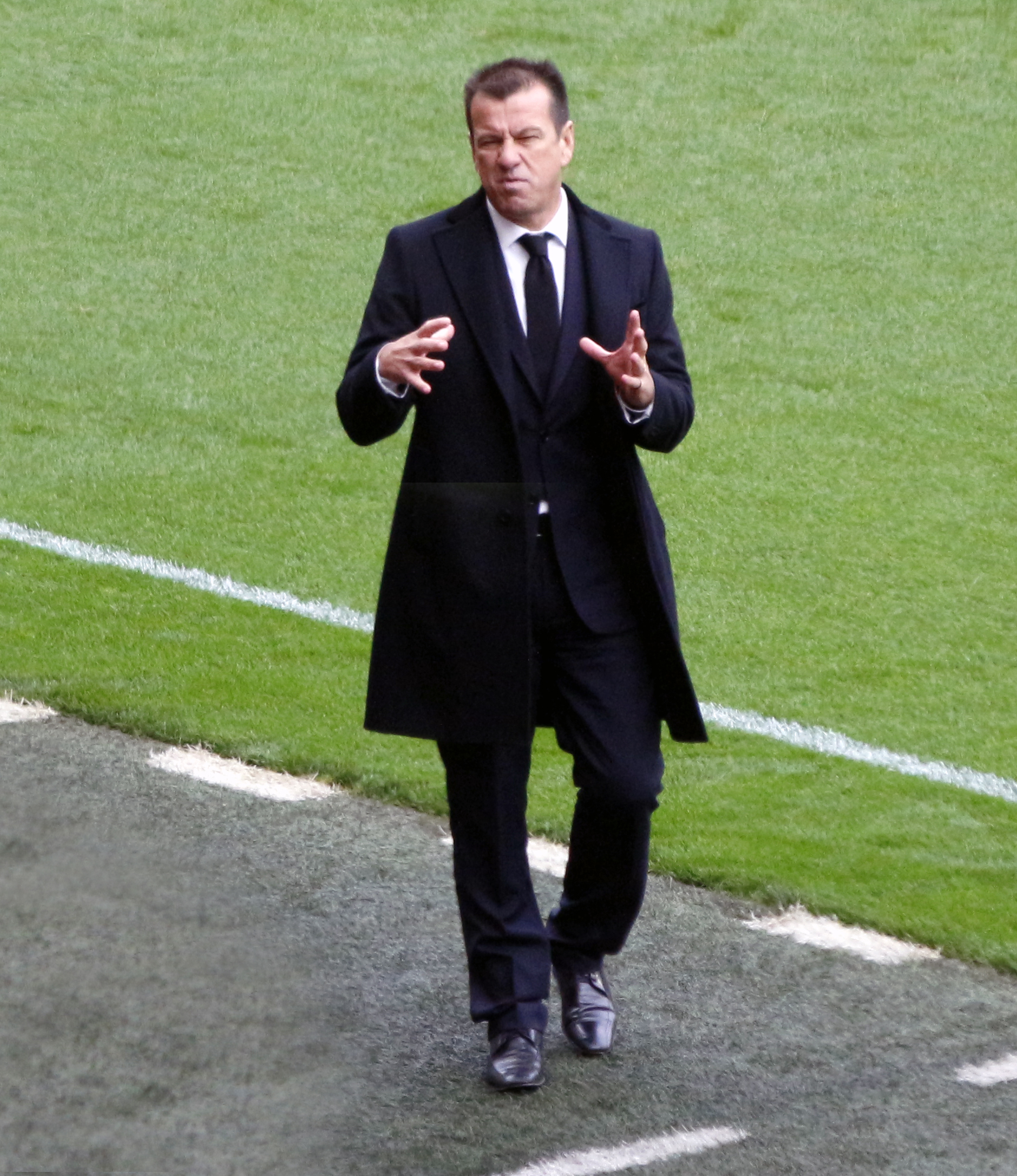 Dunga Brazil vs Chile, International Friendly, 29th March, 2015, Emirates Stadium, London